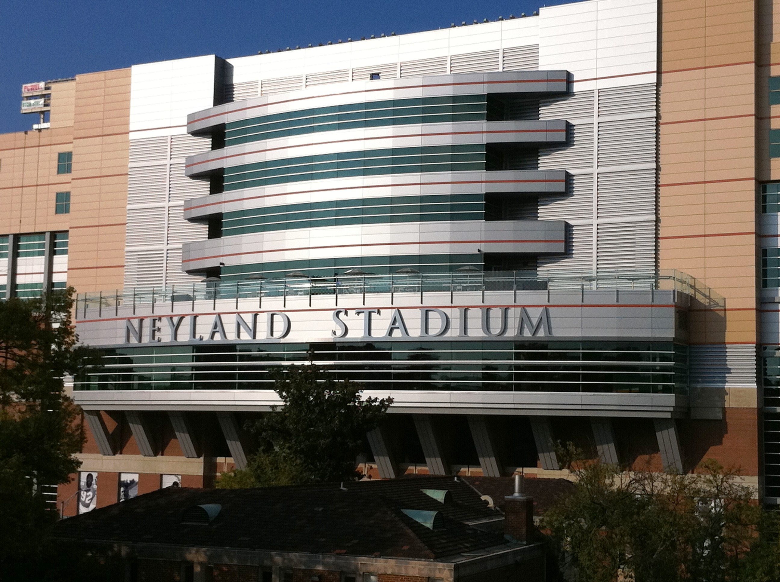 Neyland Press Box